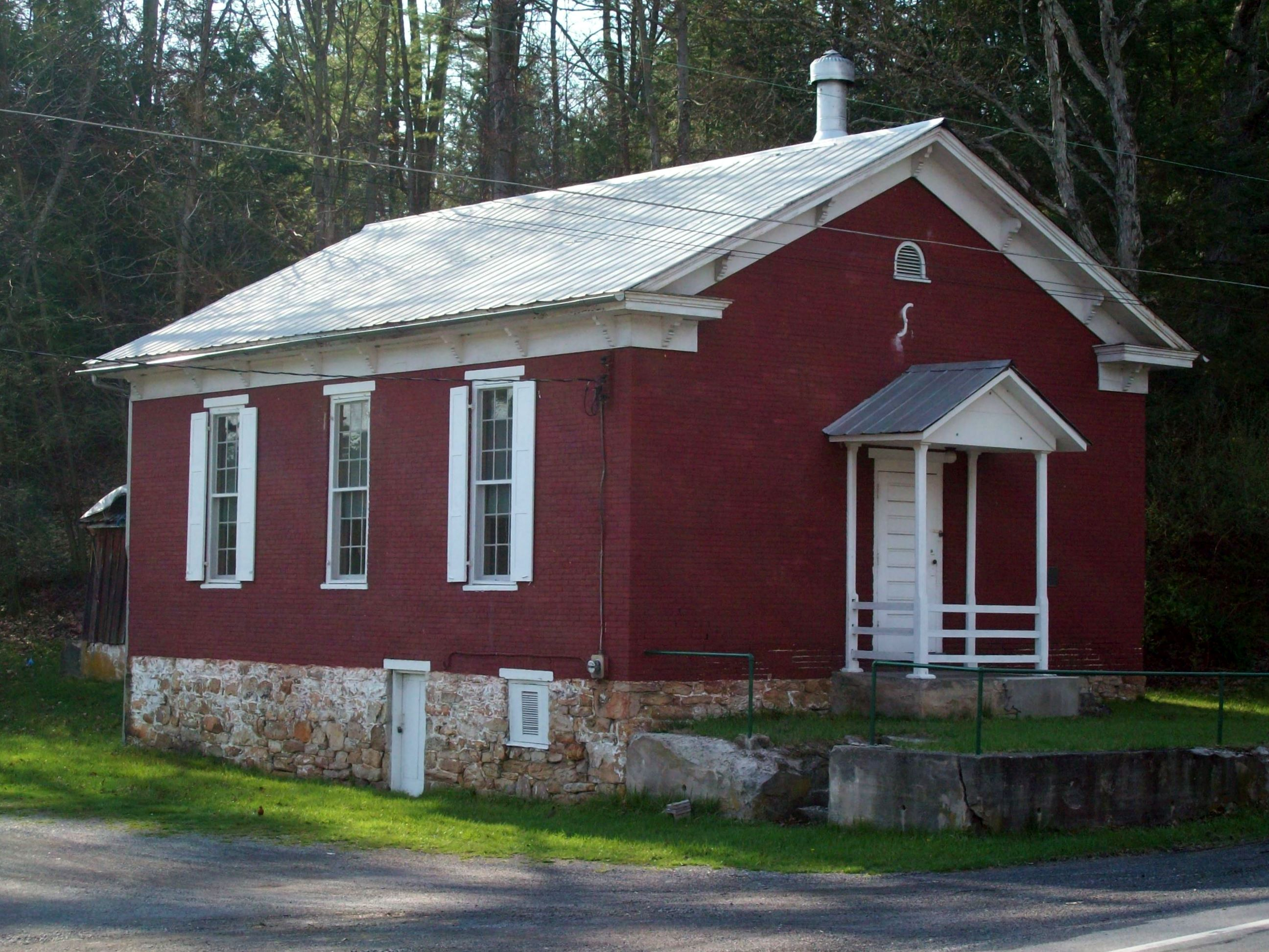 Old Hoopes School, April 10